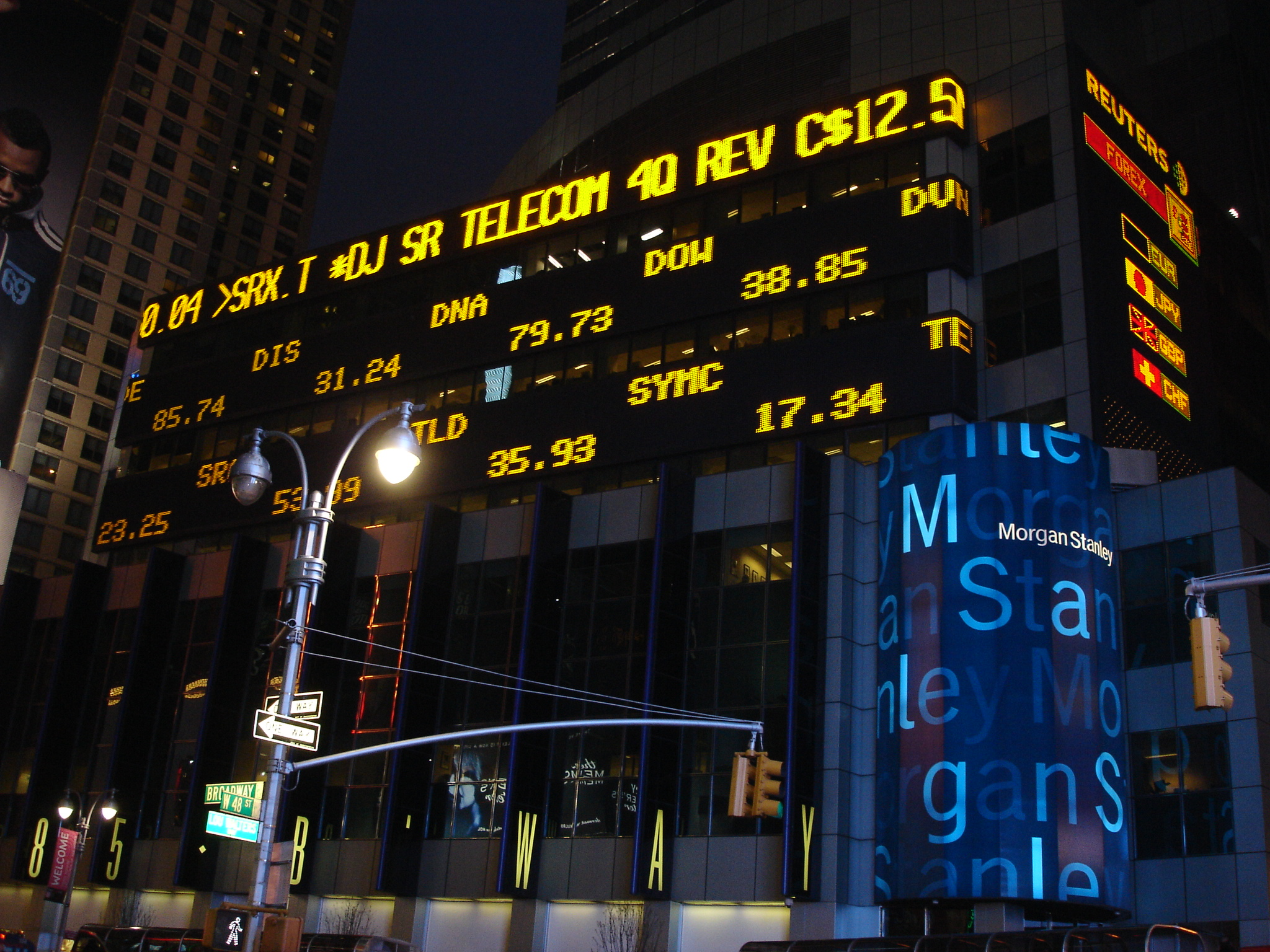 This photo is of Wikipedia Takes Manhattan location code 78, The Morgan Stanley Building.